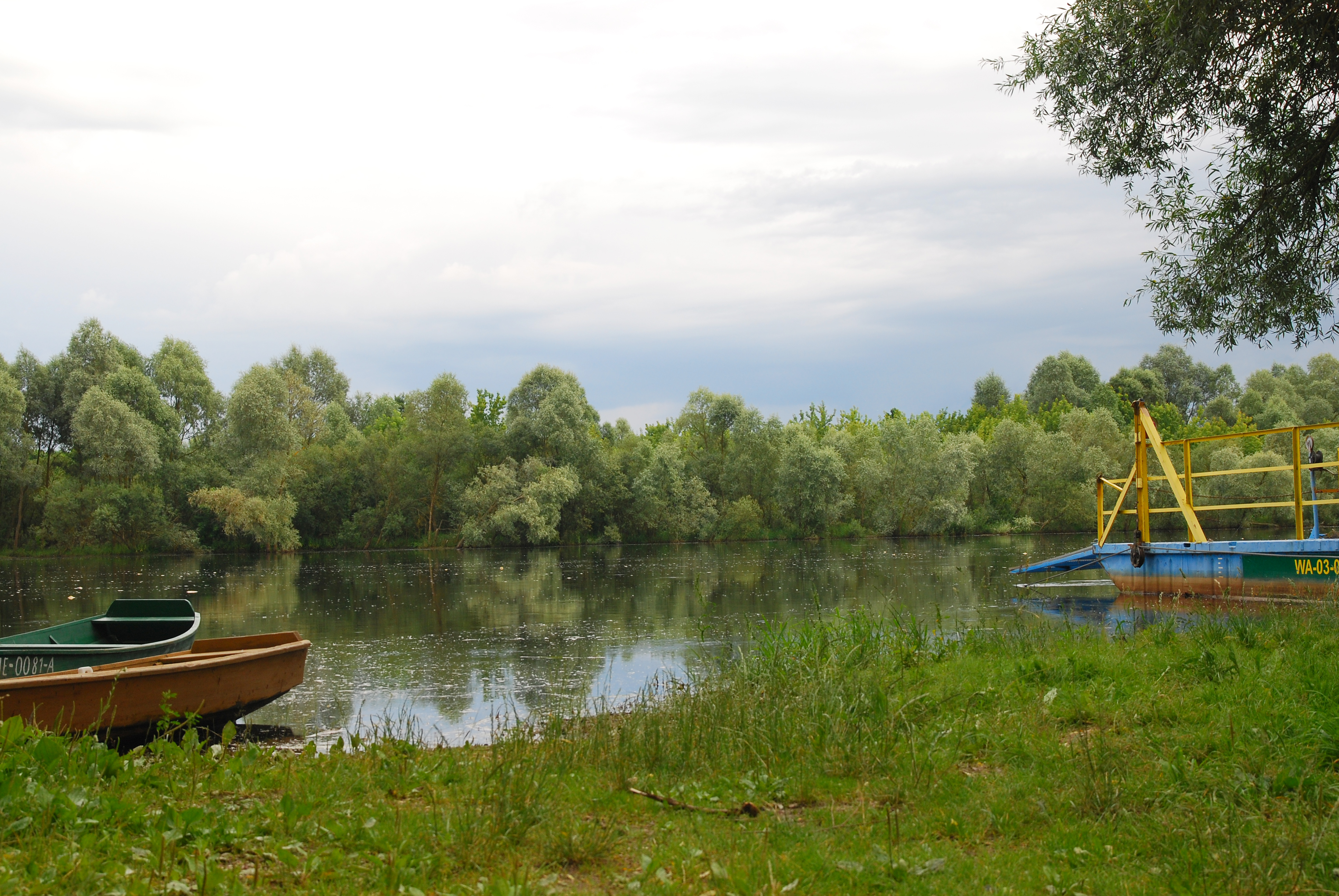 This photo from Podlaskie Voievodeship was taken during Polish Wikiexpedition 2009 set up by Wikimedia Polska Association. The making of this document was supported by Wikimedia Polska. Miejsce przeprawy promem Niemirów